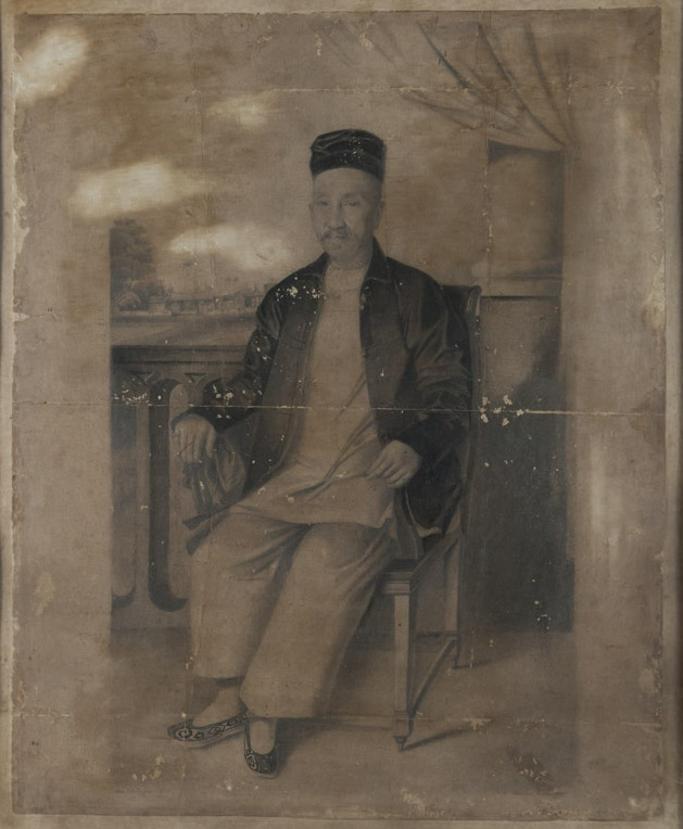 A full-length watercolour portrait of Tan Eng Goan, the 1st Majoor der Chinezen of Batavia, early to mid-19th century (Leiden University)